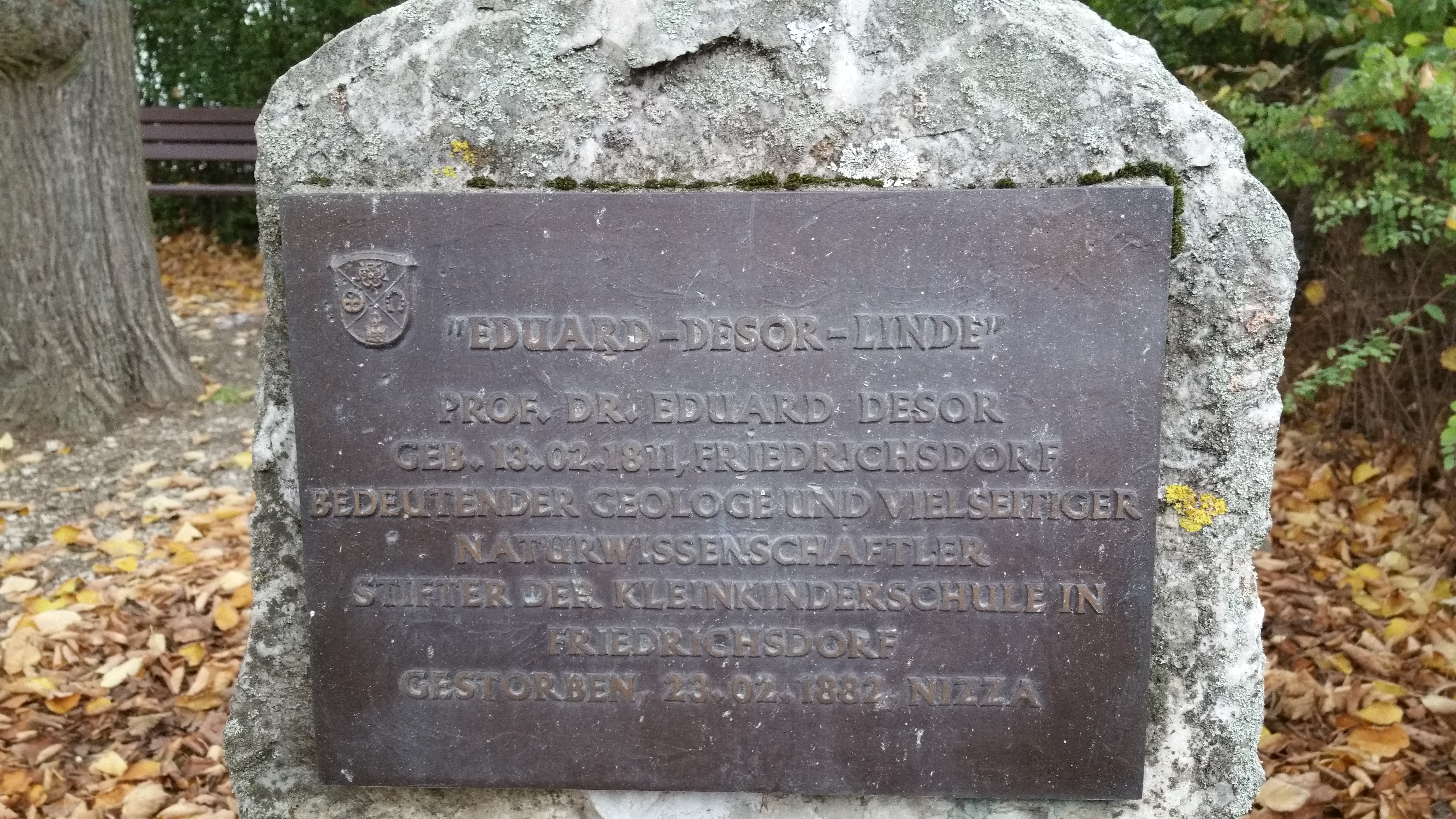 Plate at the Eduard-Desor-Tilia in Friedrichsdorf (Hassia)